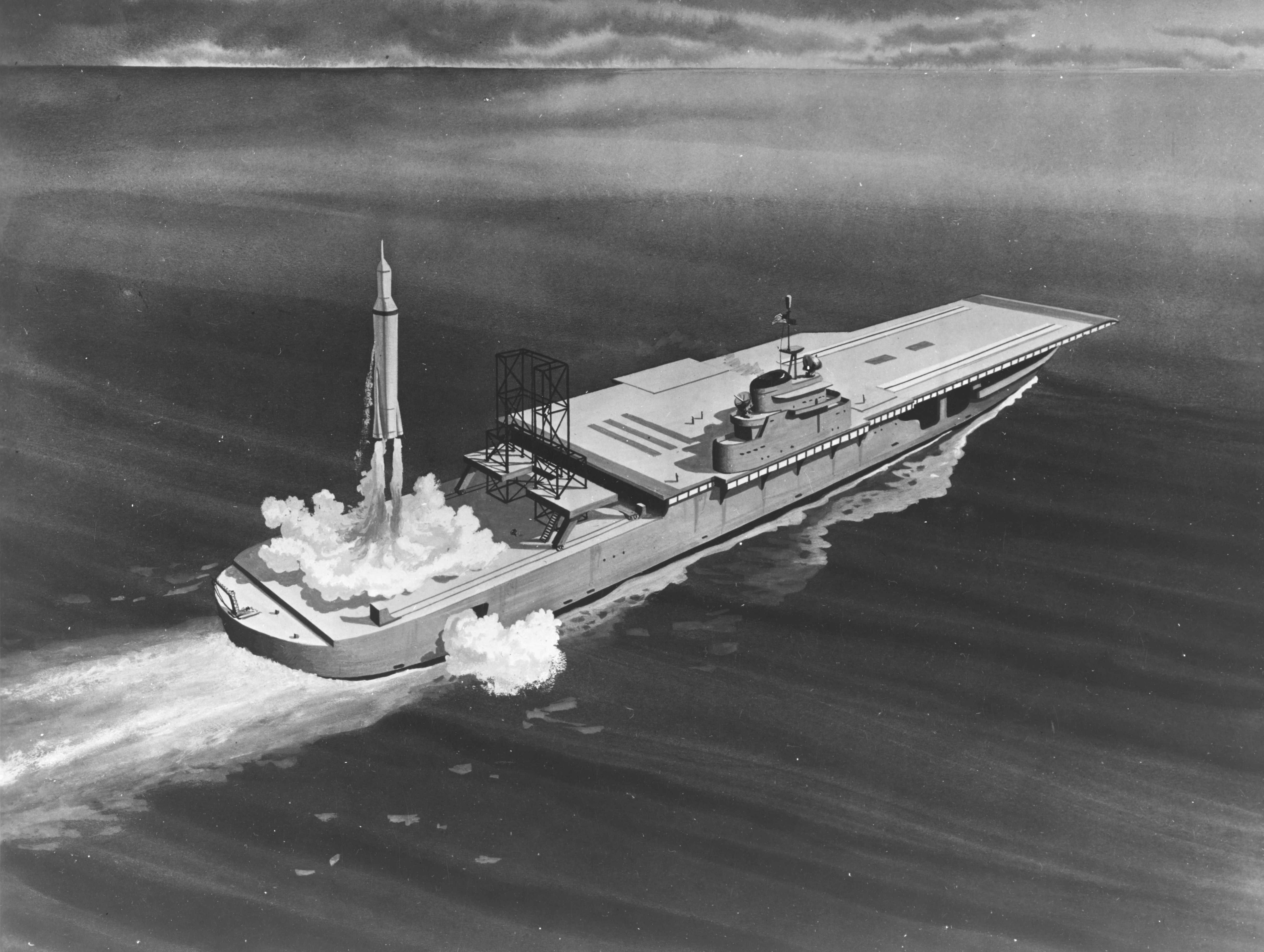 Satellite Launching Ship. Concept artwork, depicting an Essex-class aircraft carrier converted for launching space satellites into orbits not readily accessible from launch sites in the United States. The rocket shown is an "Atlas" type. The mage was received by the Naval Photographic Center on 12 December 1961.